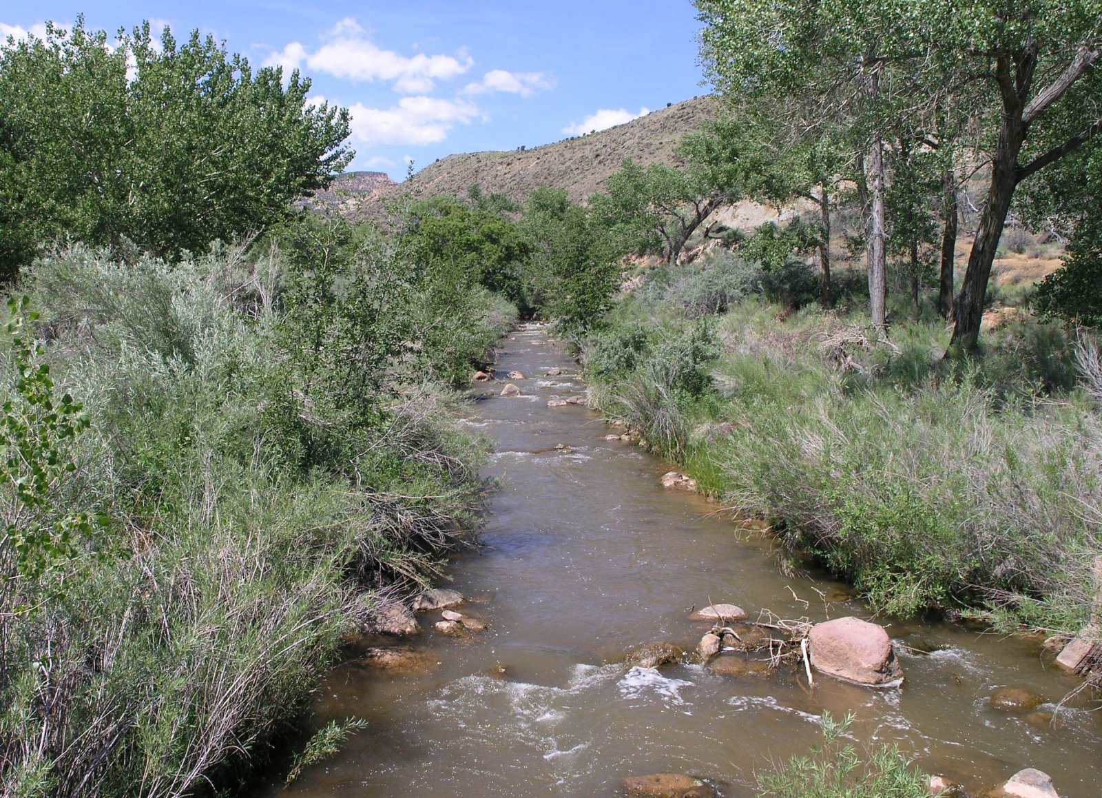 Picture taken by Daniel Mayer in late June 2005.